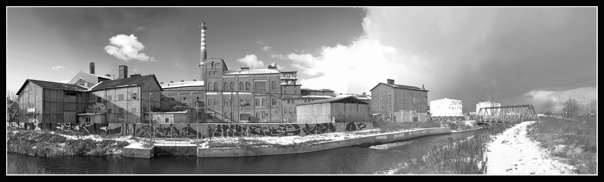 Manufacture sugar in Pruszcz Gdanski, closed